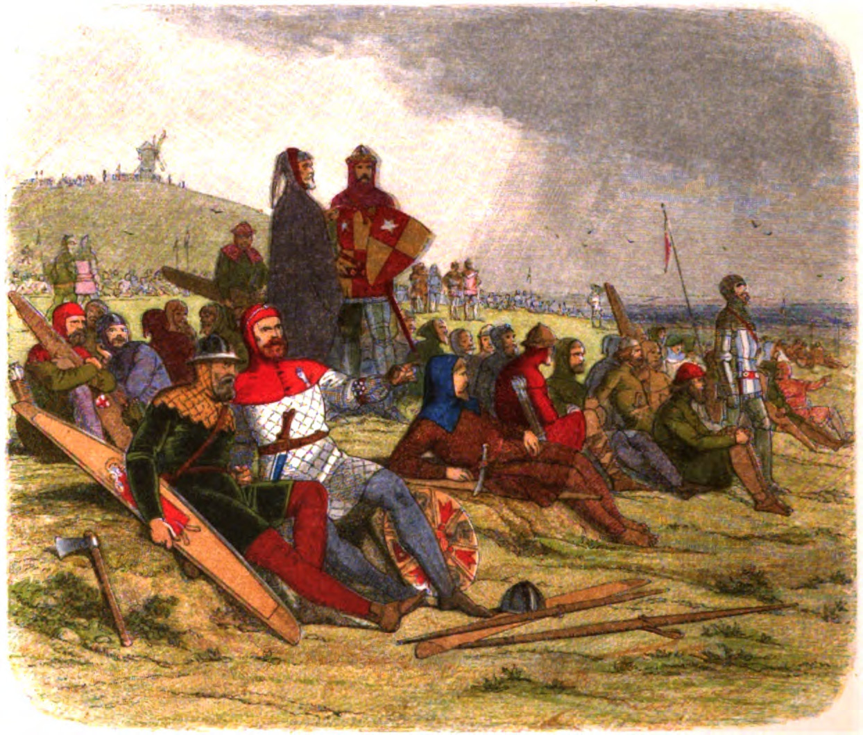 The English forces (the archers are under the command of the Earl of Oxford) await the French in anticipation for the Battle of Crécy.